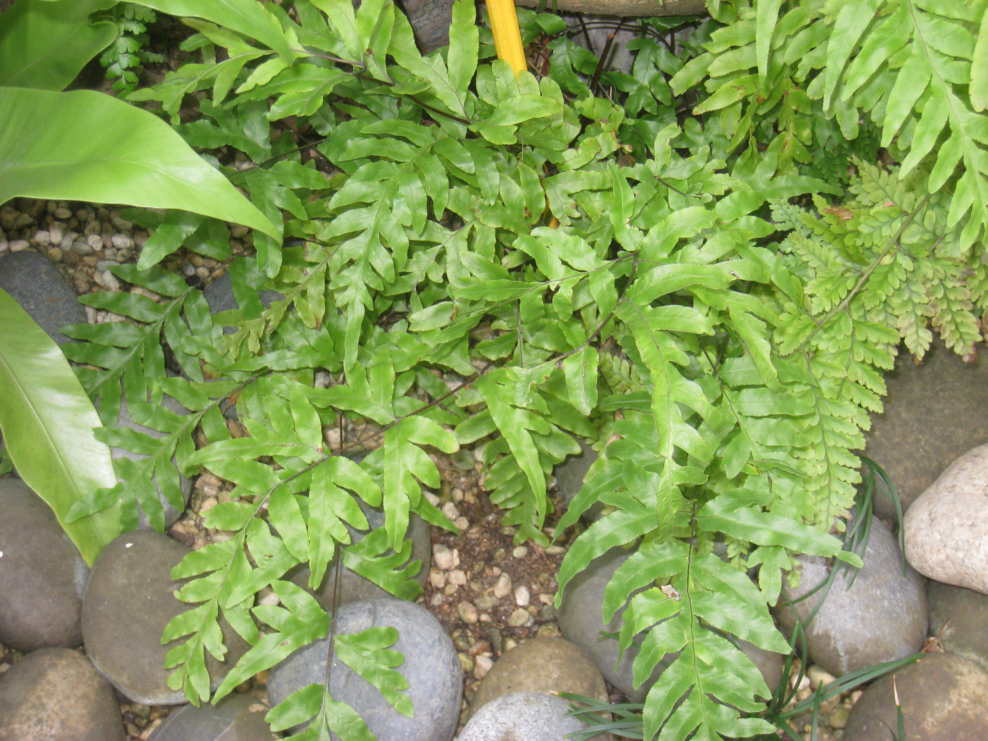 Pteris semipinnata. Plant specimen in the Hong Kong Zoological and Botanical Gardens, Hong Kong.